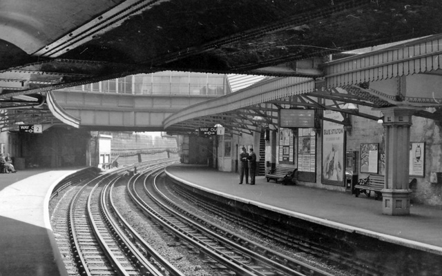 Bow Road LT Station. View eastward at platform level; LT District (and Metroplotian - Hammersmith & City) Lines, West and Central London - Barking and Upminster.